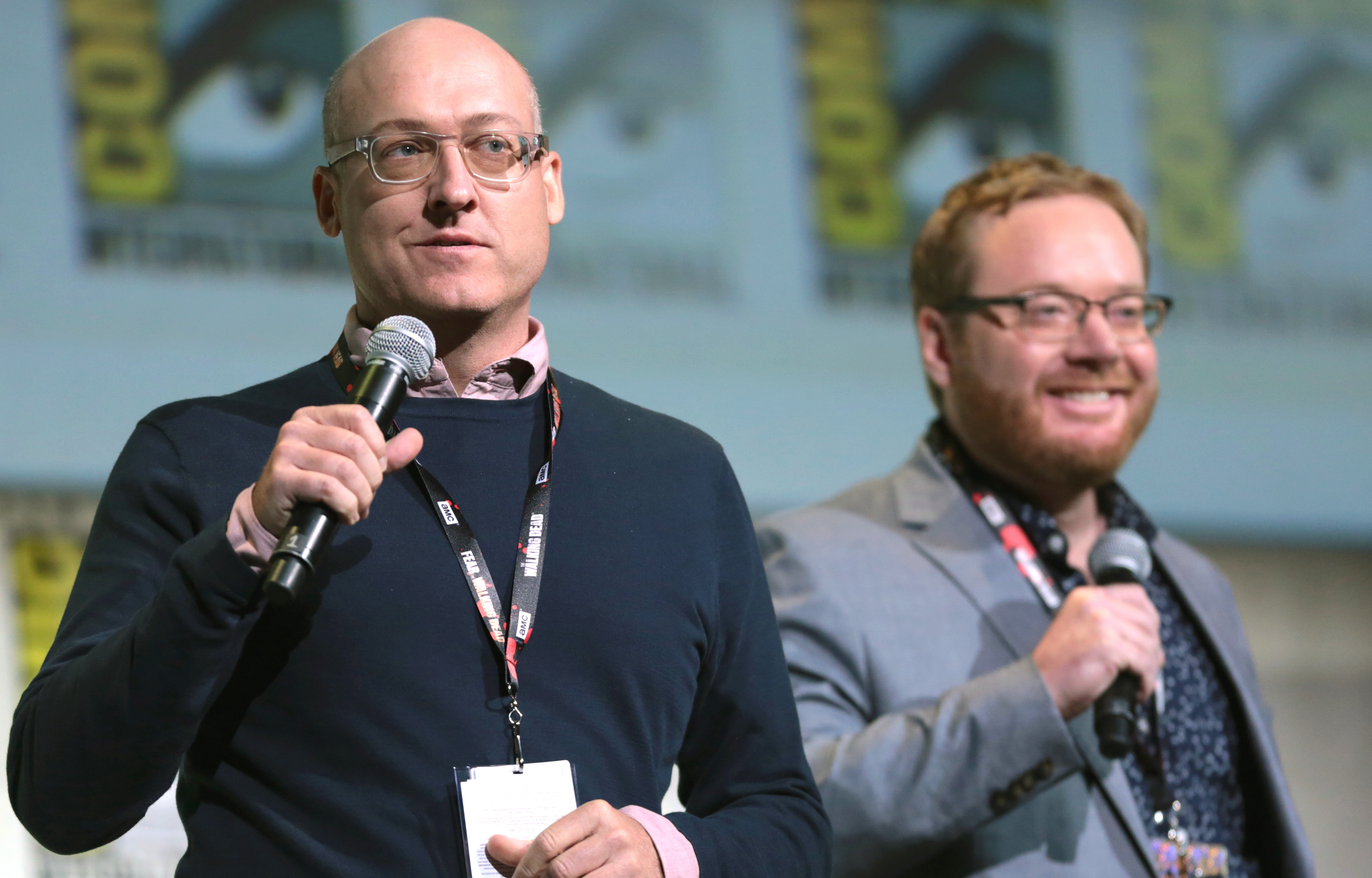 Mike Mitchell and Walt Dohrn speaking at the 2016 San Diego Comic Con International, for "Trolls", at the San Diego Convention Center in San Diego, California.